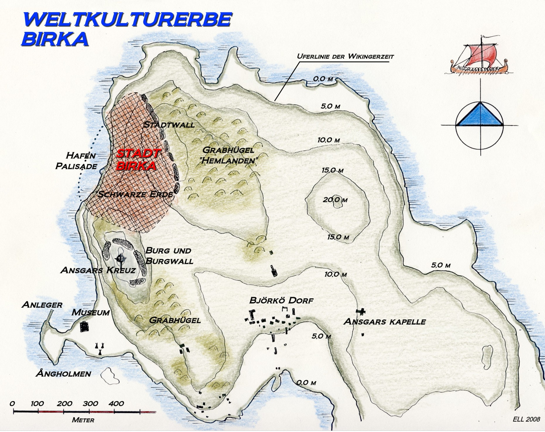 Map of Birka